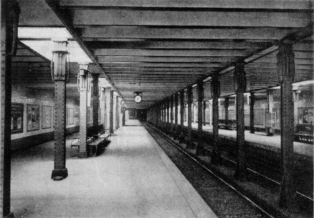 The Berlin U-Bahnstation Deutsche Oper (former Bismarckstraße)